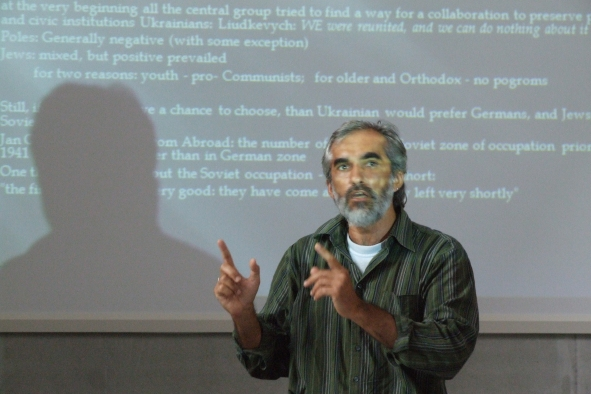 Ukrainian historian Jaroslav Hrytsak during a presentation at the Ukrainicum 2008 in Greifswald, Germany.